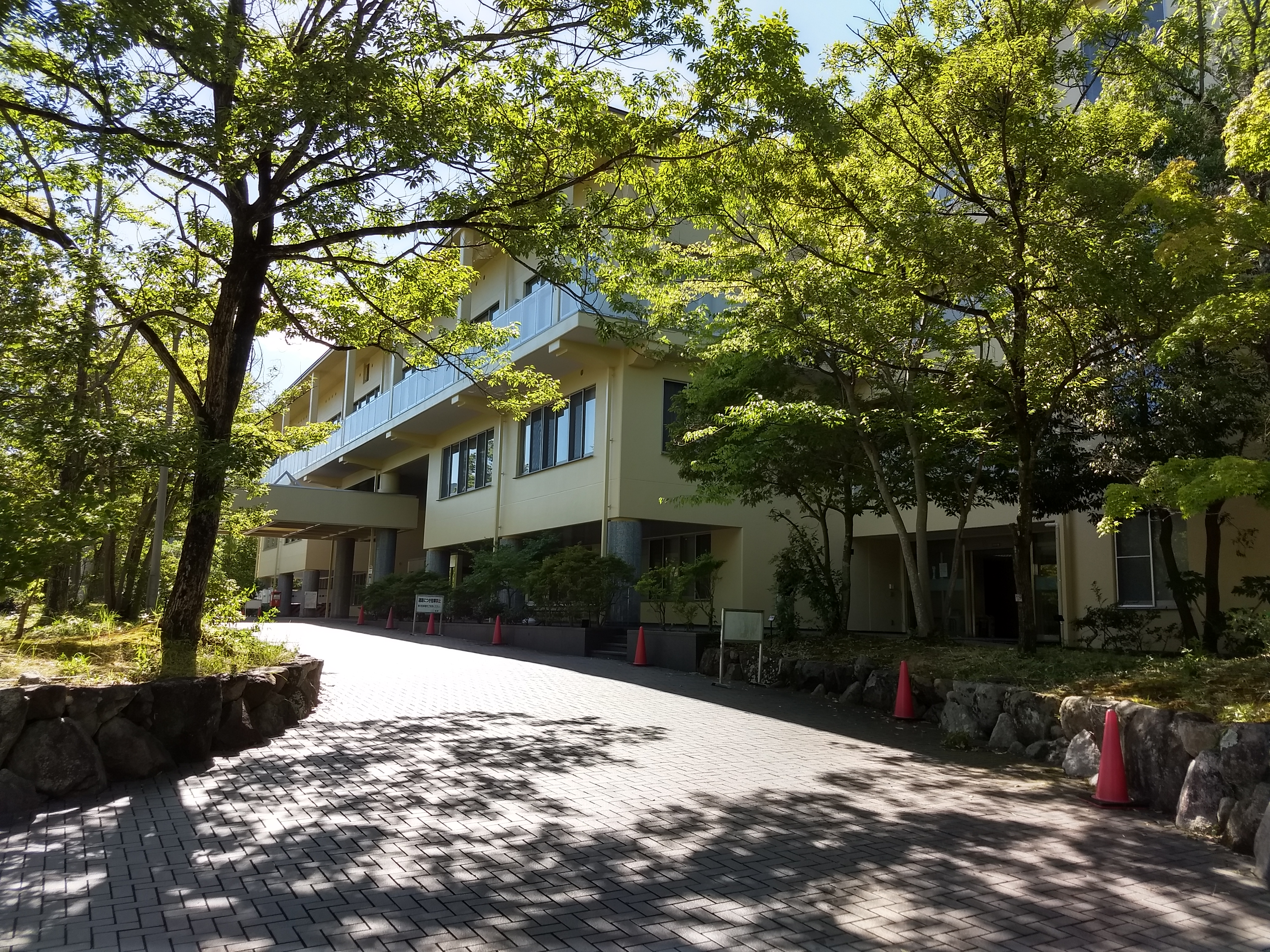 A research institution affiliated with Tenri University.